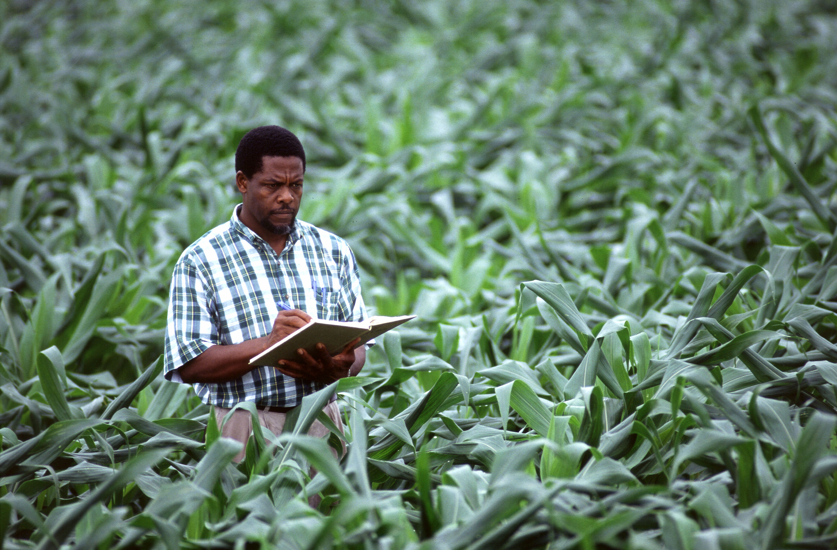 Soil scientist measures corn growth and other processes Original caption: “Soil scientist Eton Codling notes excellent corn growth on manured soil treated with alum residue, which cuts ammonia emissions to the air and phosphorus losses in runoff water.”